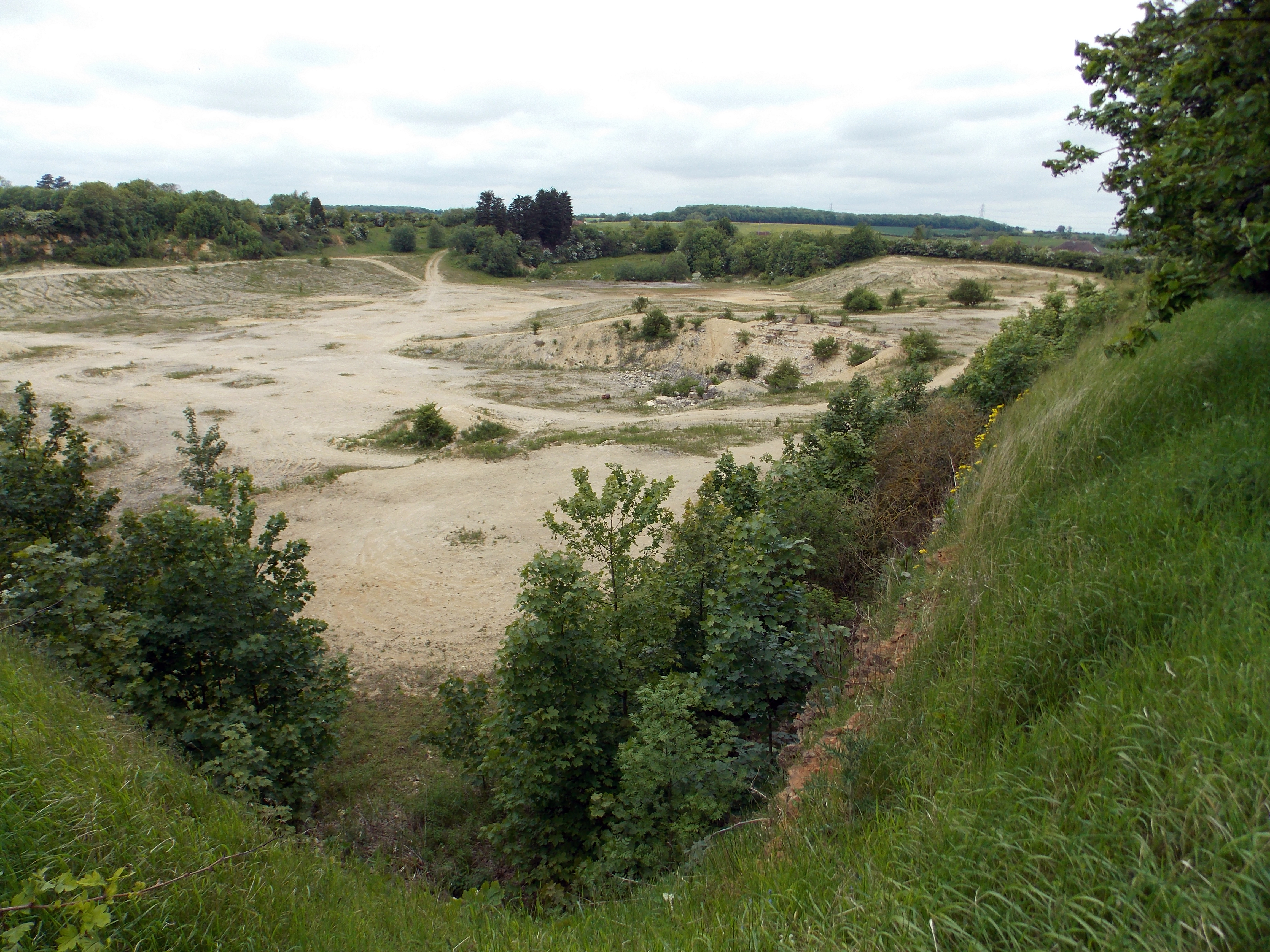 Photograph taken from the south corner of, and looking down into, Castle Bytham Quarry, Castle Bytham, South Kesteven, Lincolnshire, England - 12.19pm, 8 June 2013. Grid reference SK9896417781